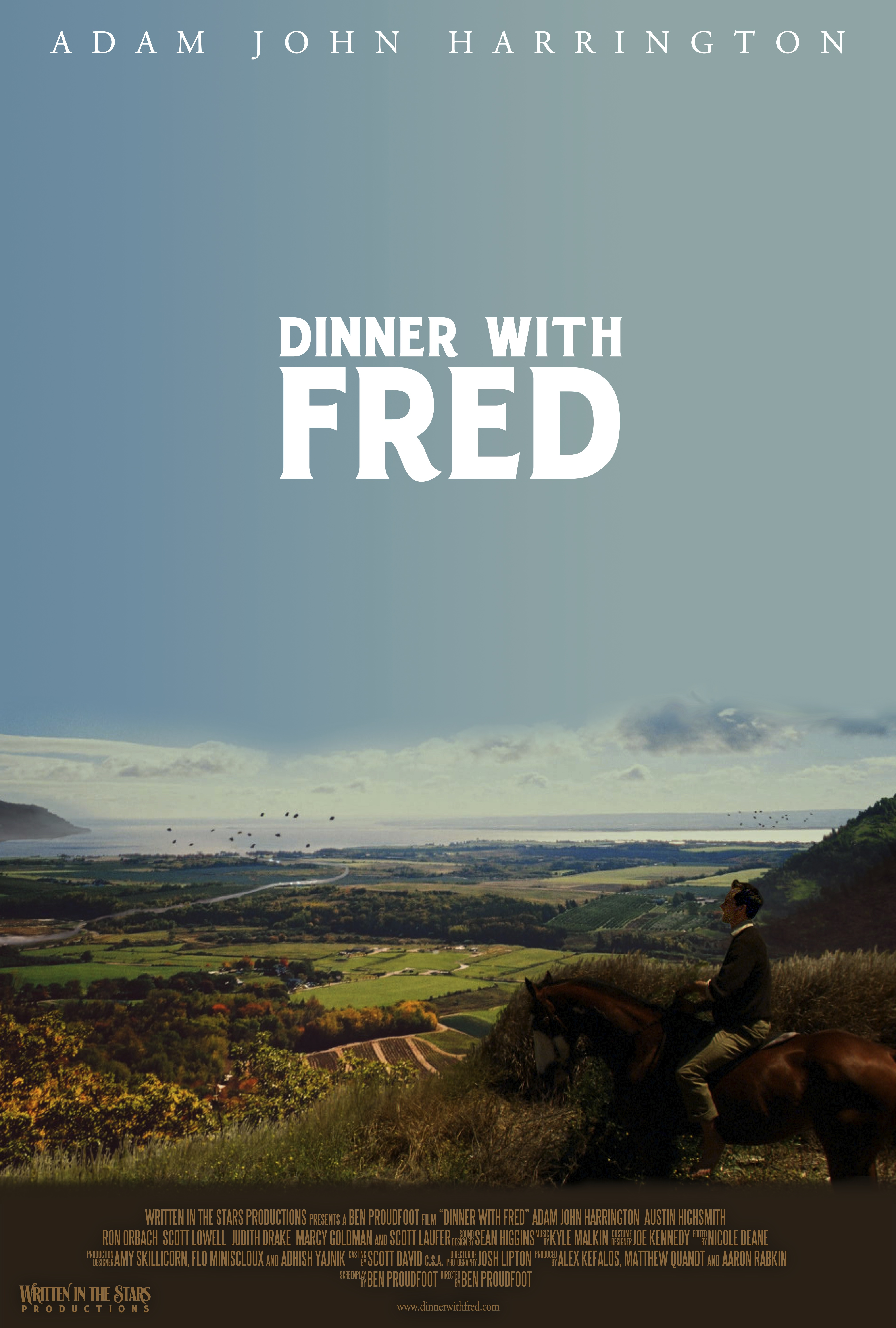 Film poster for "Dinner with Fred"